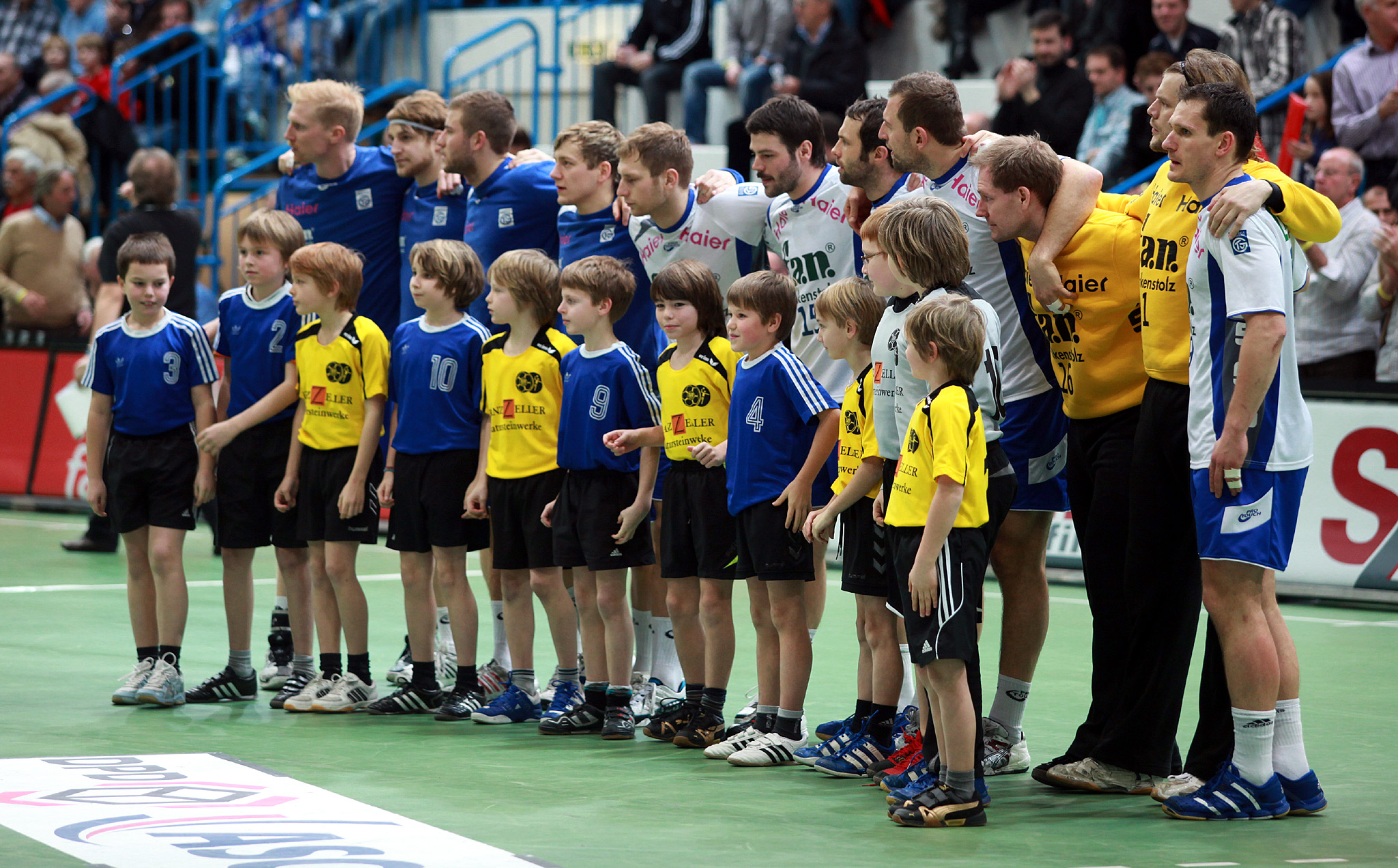 Manuel Späth, the German handball team from TV Großwallstadt, on December 22nd, 2010 prior the Bundesliga match TV Großwallstadt – Frisch Auf Göppingen. The game took place in the f.a.n. frankenstolz arena of Aschaffenburg